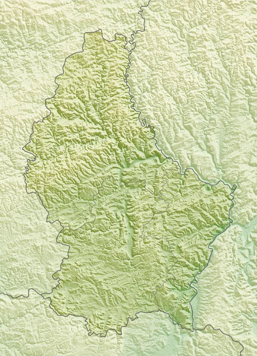 Physical location map of Luxembourg Equirectangular projection. Geographic limits of the map: N: 50.25° N S: 49.4° N W: 5.65° O O: 6.6° O